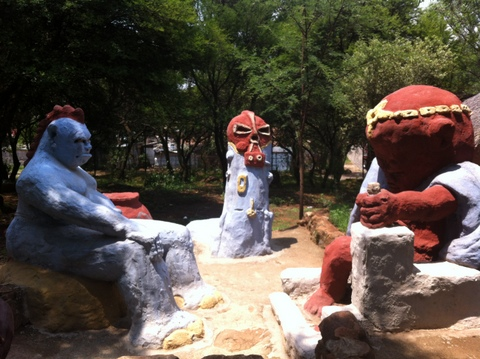 Sculpture depicting zulu king with promiscuity disease from Credo Mutwa cultural village in Soweto